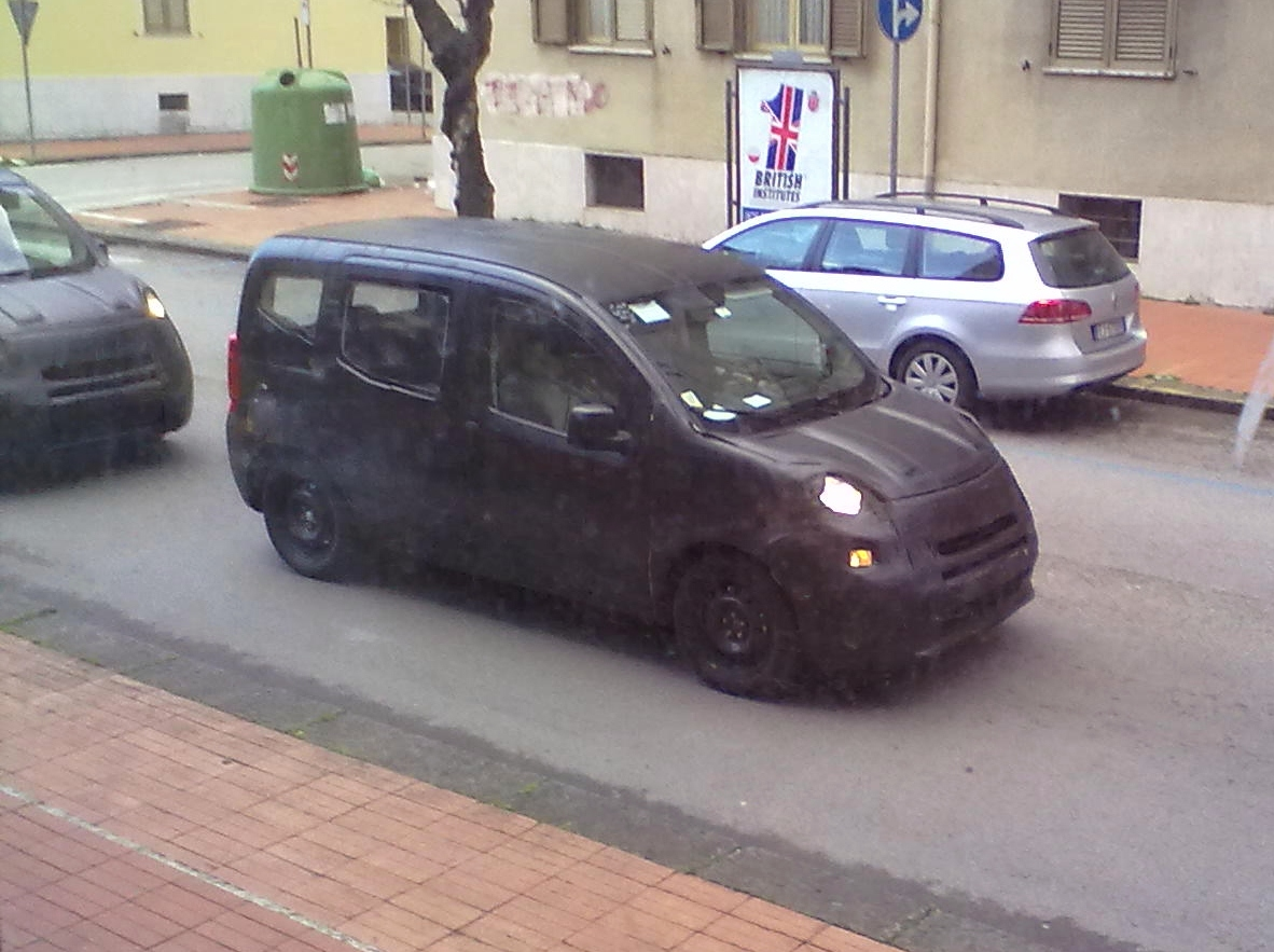 Fiat 500L prototype test in Avellino